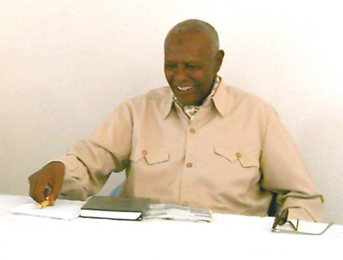 Jibrell Ali Salad, Somali politician and military leader